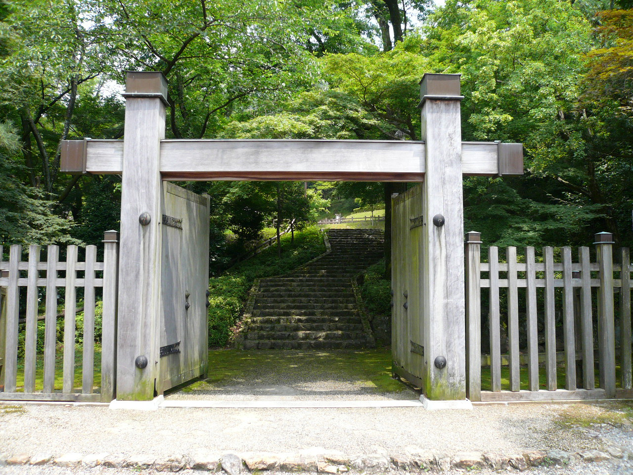 I took this picture of the entrance to Senjō-jiki in Gifu Park in July 2007.